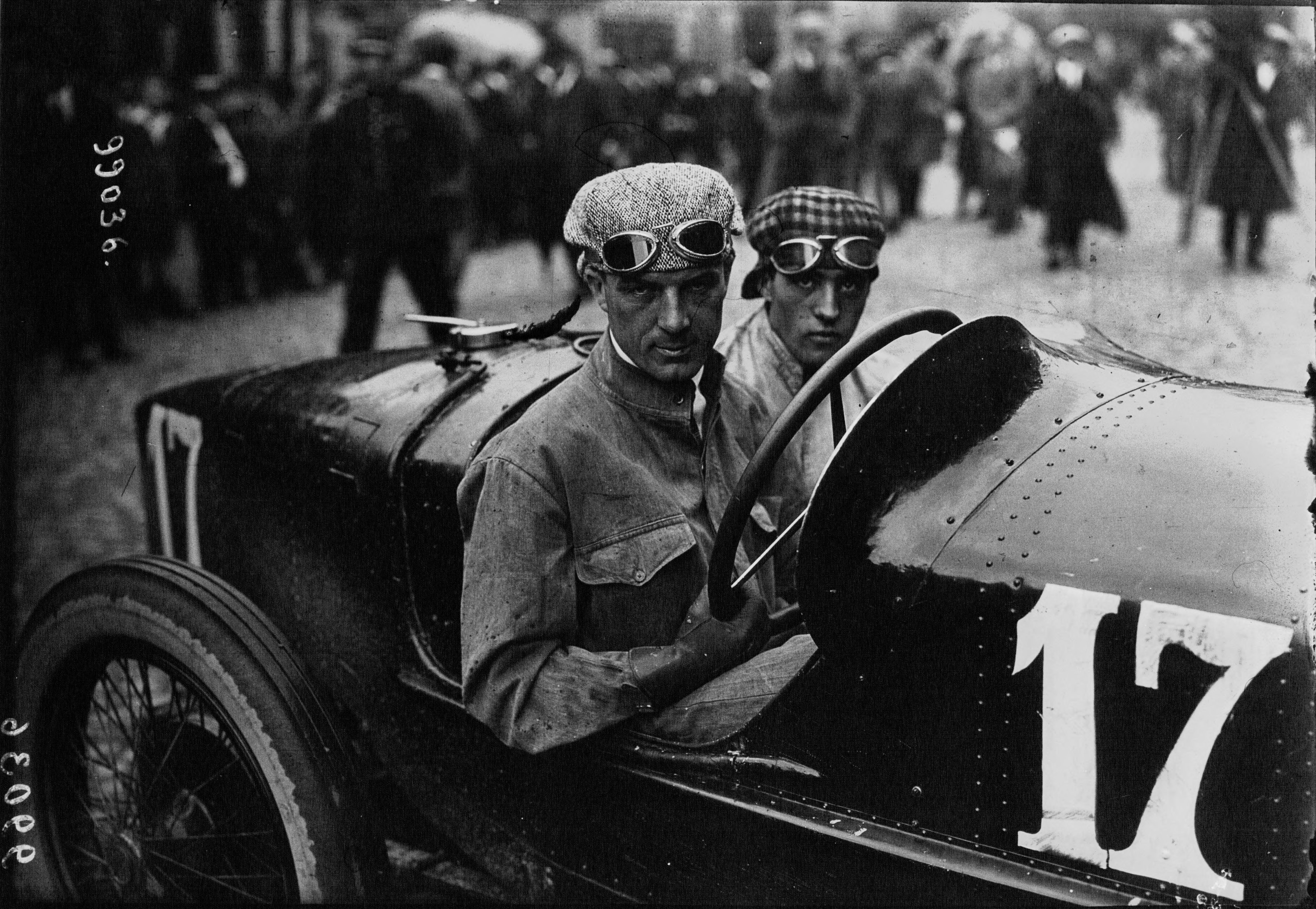 Biagio Nazzaro at the 1922 French Grand Prix